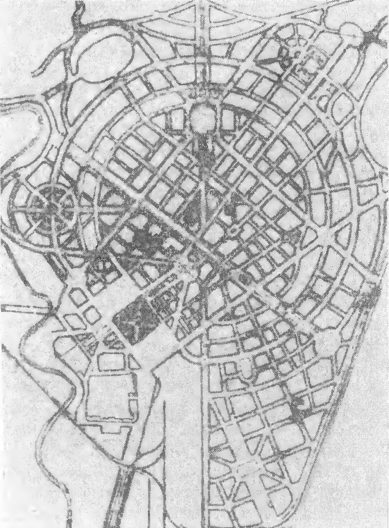 Yerevan map by Tamanyan, 1924